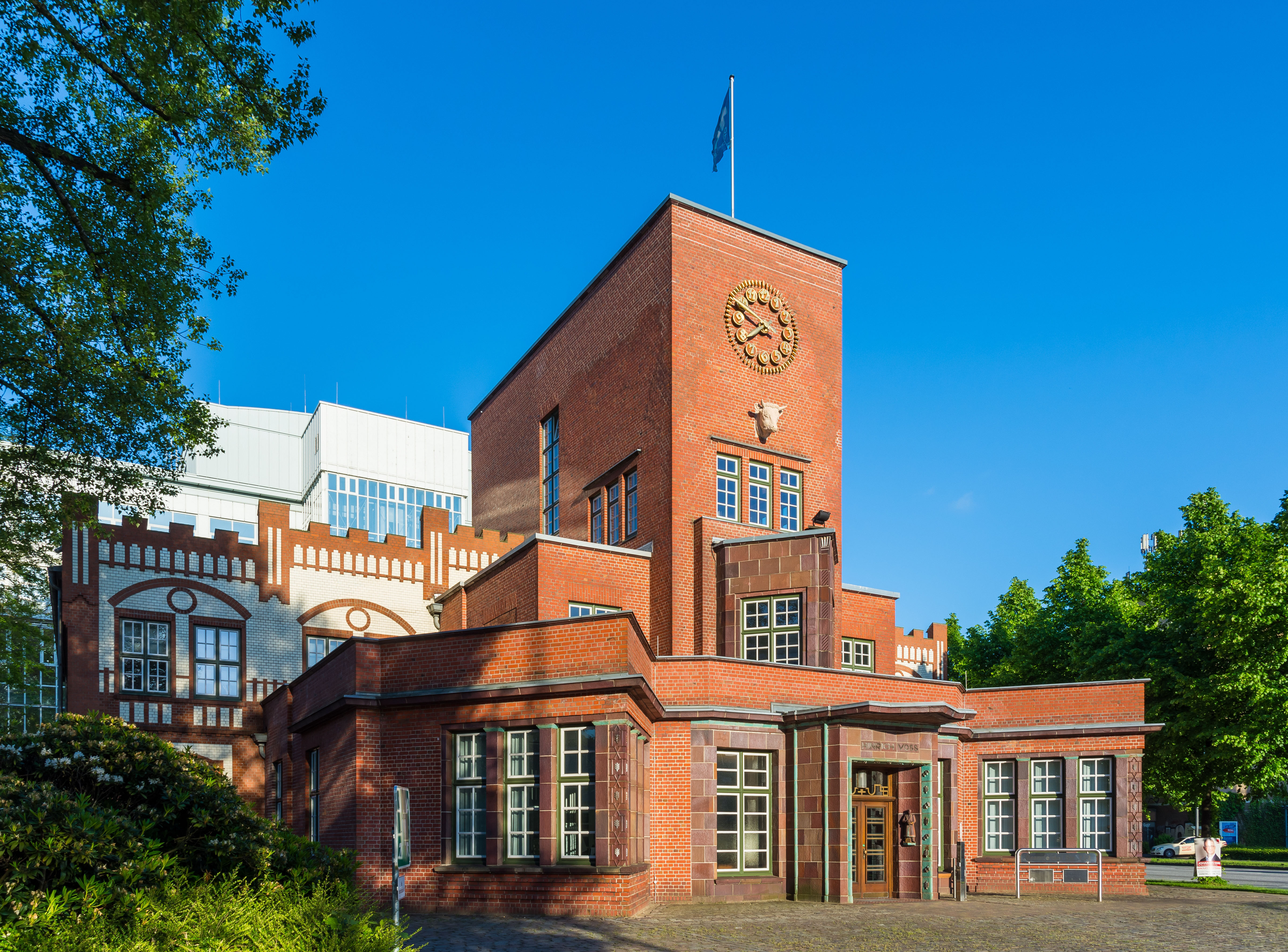 Entrance building of the defunct Voss margarine factory, Hamburg, now part of the headquarters of the Techniker health insurance company.